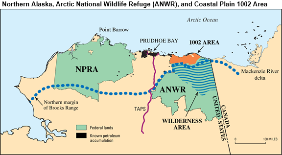 ANWR is located on the northern coast of Alaska east of Prudhoe Bay and the National Petroleum Reserve-Alaska (NPRA). The coastal plain, also known as the 1002 Area, covers 1.5 million acres and is about 8% of the total area of ANWR. June 14, 2018